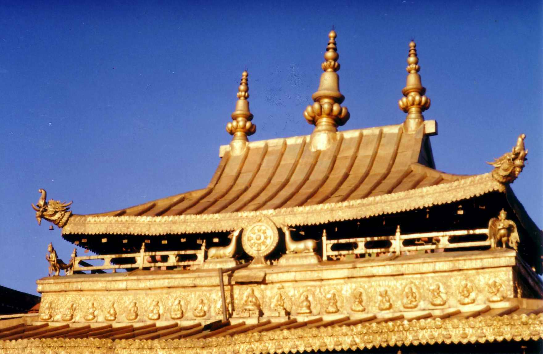 I took this photo myself in 1993. John E. Hill 04:49, 13 February 2007 (UTC)